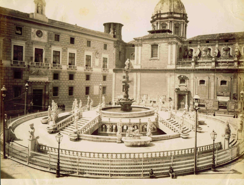 Giuseppe Incorpora (1834-1914), "Palermo. Piazza Pretoria square". Catalogue number: 26.